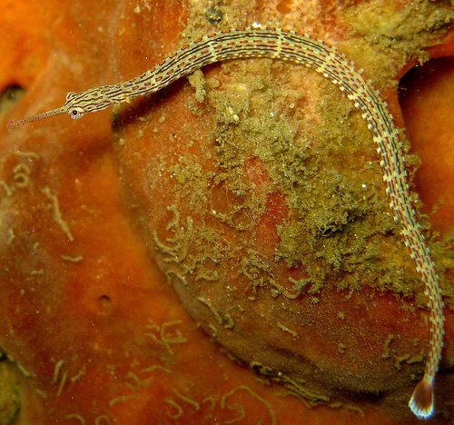 Corythoichthys schultzi